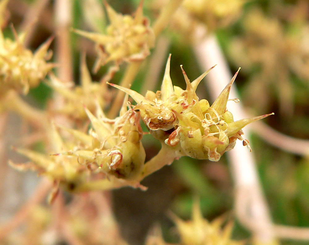 Photo of Dudleya edulis at the Regional Parks Botanic Garden